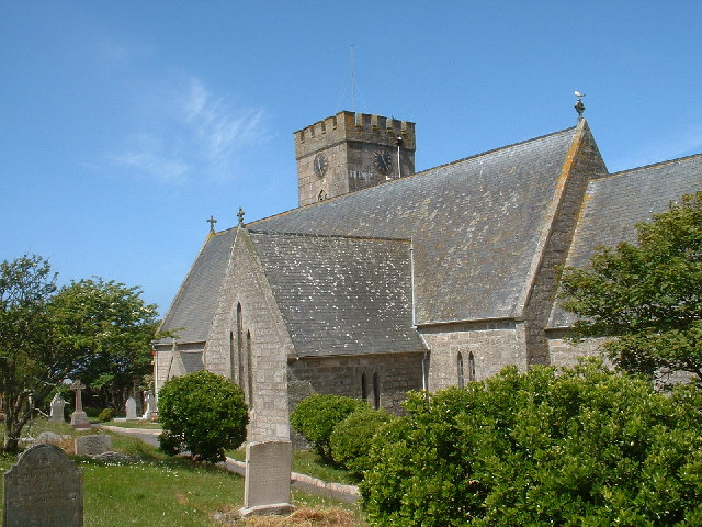 Pendeen Church. Built by tin miners in 1851